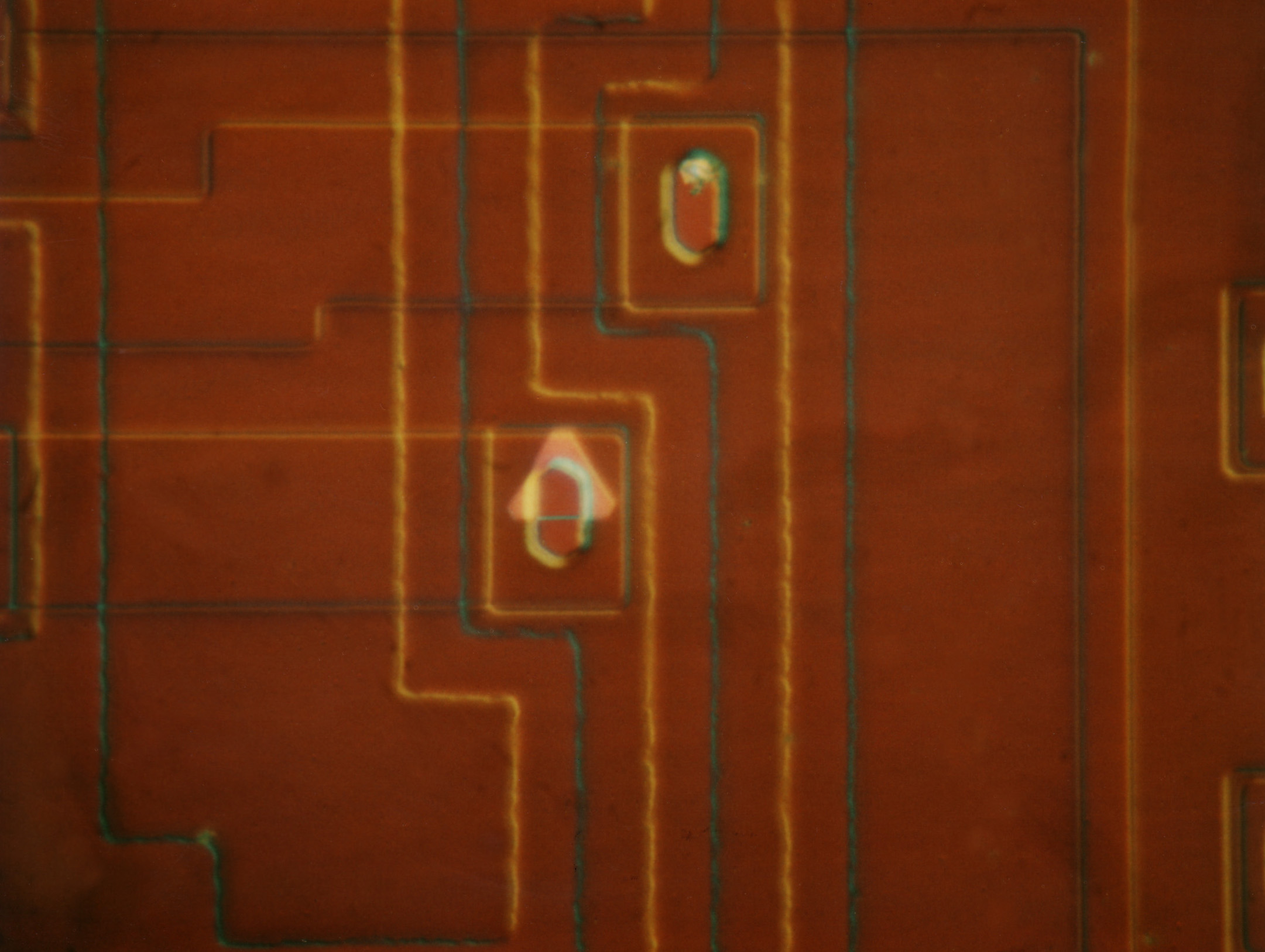 The subject of this image is a silicon integrated circuit wafer. At the center of the image is a light triangle. This triangle is a pyramid-shaped area of Al-Si alloy caused by high-temperature processing (450°C annealing) of the wafer after Aluminum deposition and etching. The 1-1-1 orientation of the silicon wafer enables the alloying to descend into the wafer perpendicular to the surface of the wafer. The alloyed area has a different index of refraction than than the other silicon substrate and is highlighted by the Nomarski Differential Interference Contrast microscopy (DIC). Note that the features are visible because of the aluminum had previously been etched away with acid to enable this microscopic analysis.